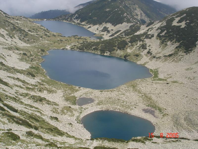 Kremenski ezera - lakes in Pirin mountain in Bulgaria. View from Jano summit.